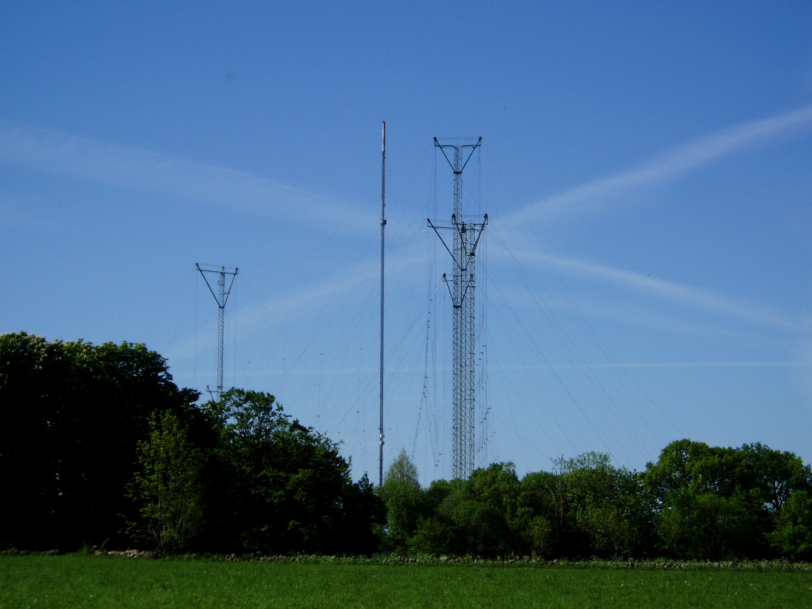 Radio mast at Östra Sallerup, Scania, Sweden